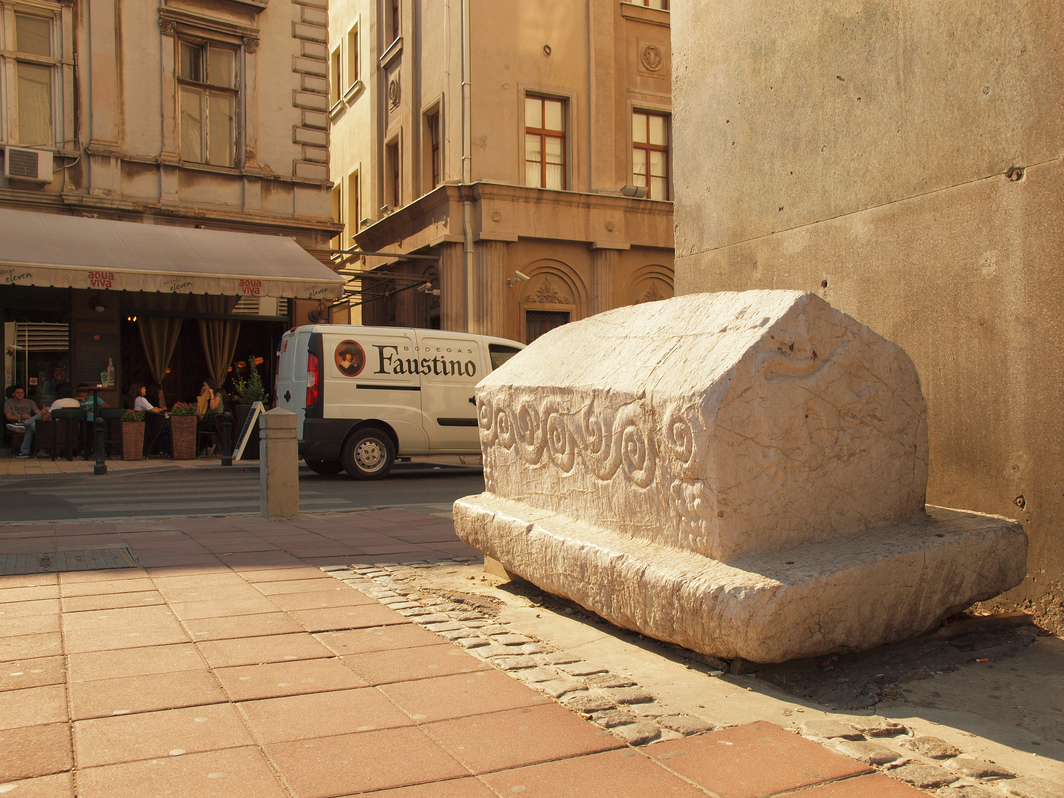 steccak belgrade